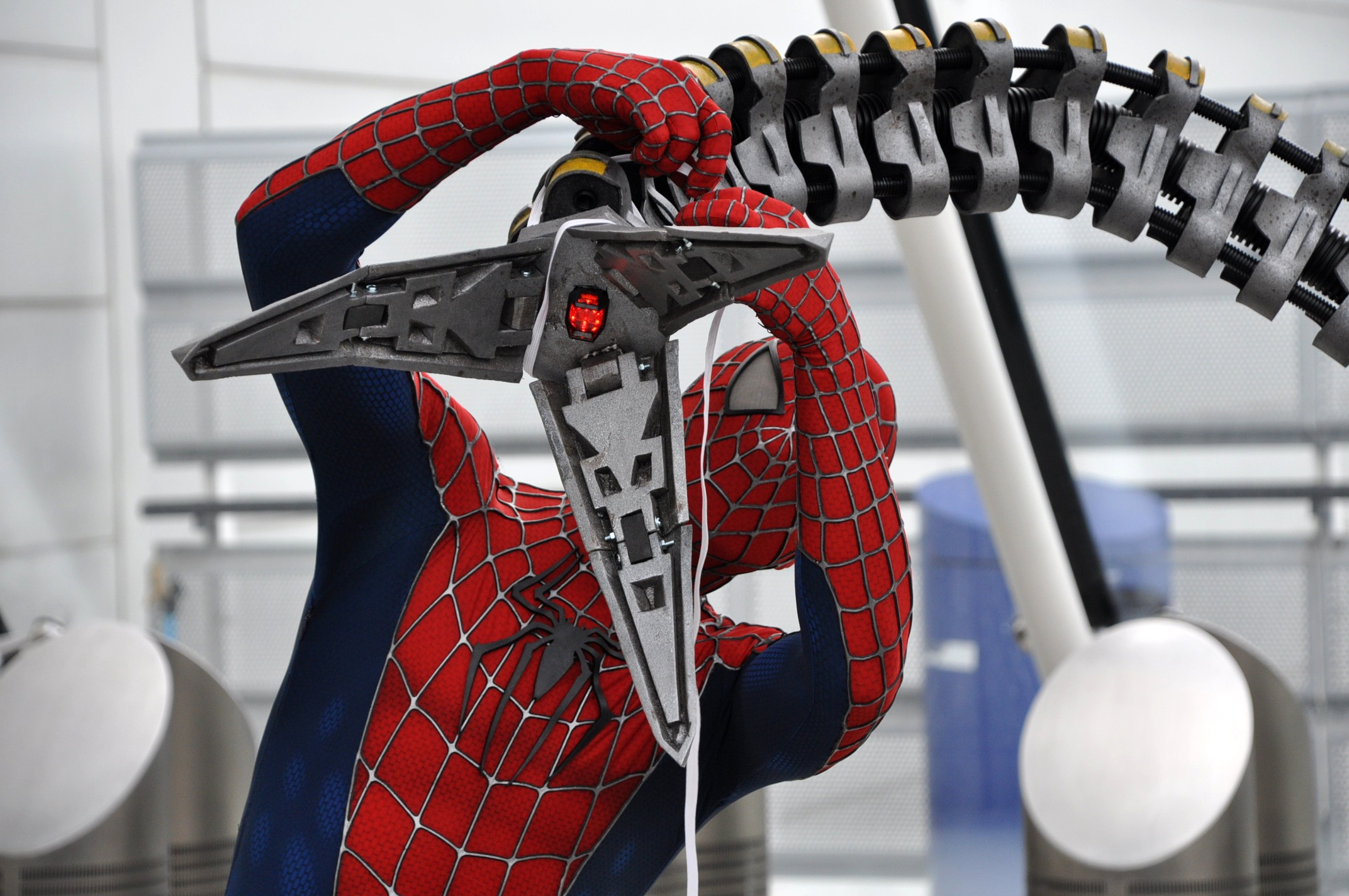 DSC_0226 Cosplay at the Summer 2013 MCM London Comic Con at the ExCeL Exhibition Centre.